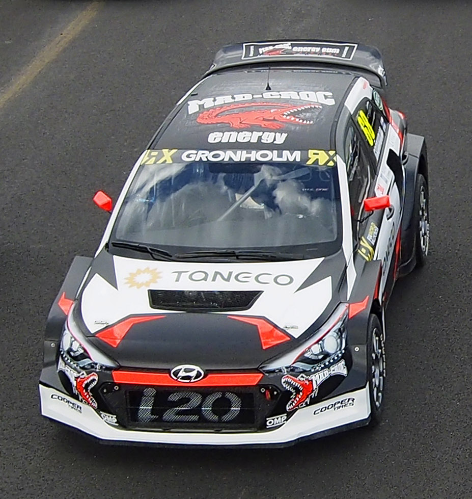 2018 FIA World Rallycross Championship // Round 1, Barcelona // Credit: EKS Audi Sport